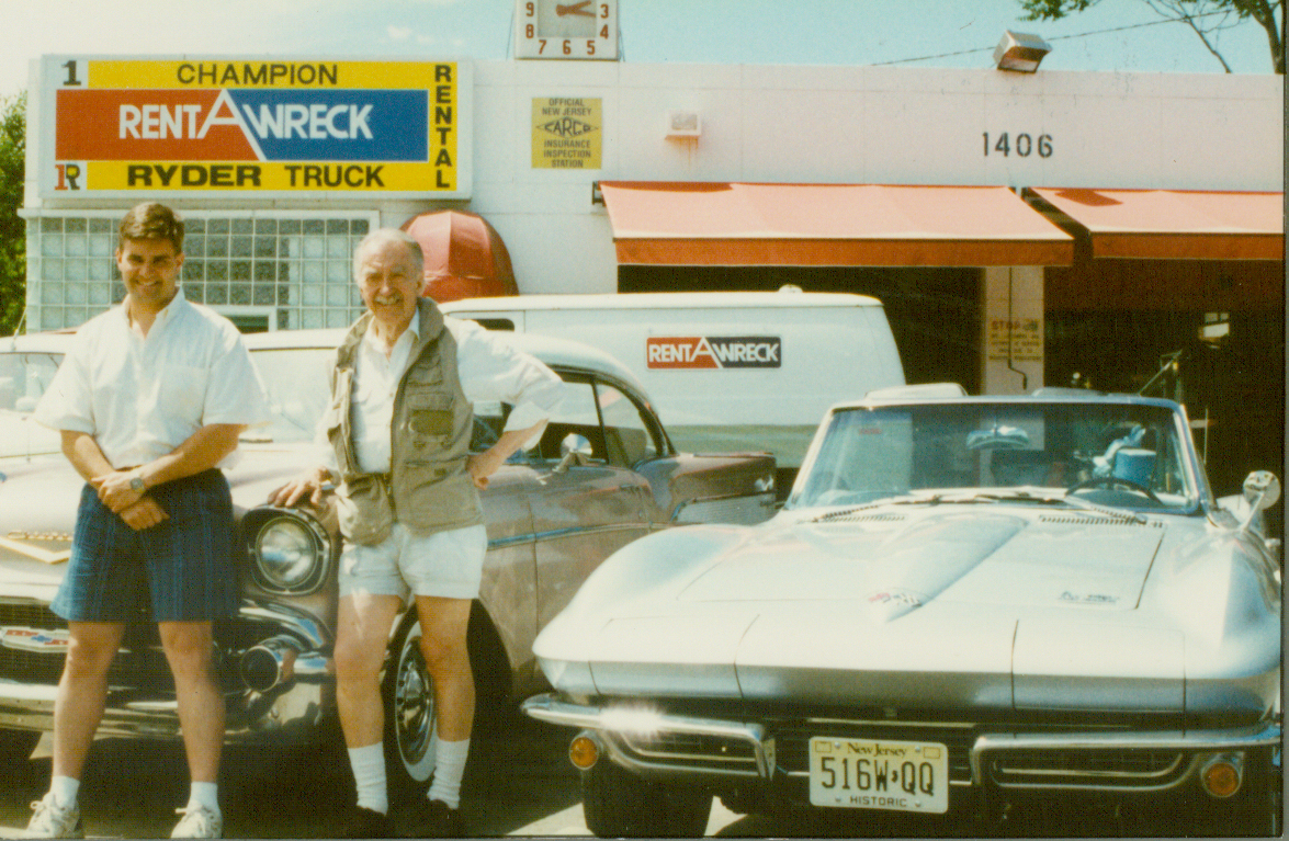 The Kirmsee Family has owned and operated Rent-A-Wreck in Cherry Hill, NJ since 1979. Here father and sons Lanse and Howard pose with a Sting Ray and a Chevrolet.